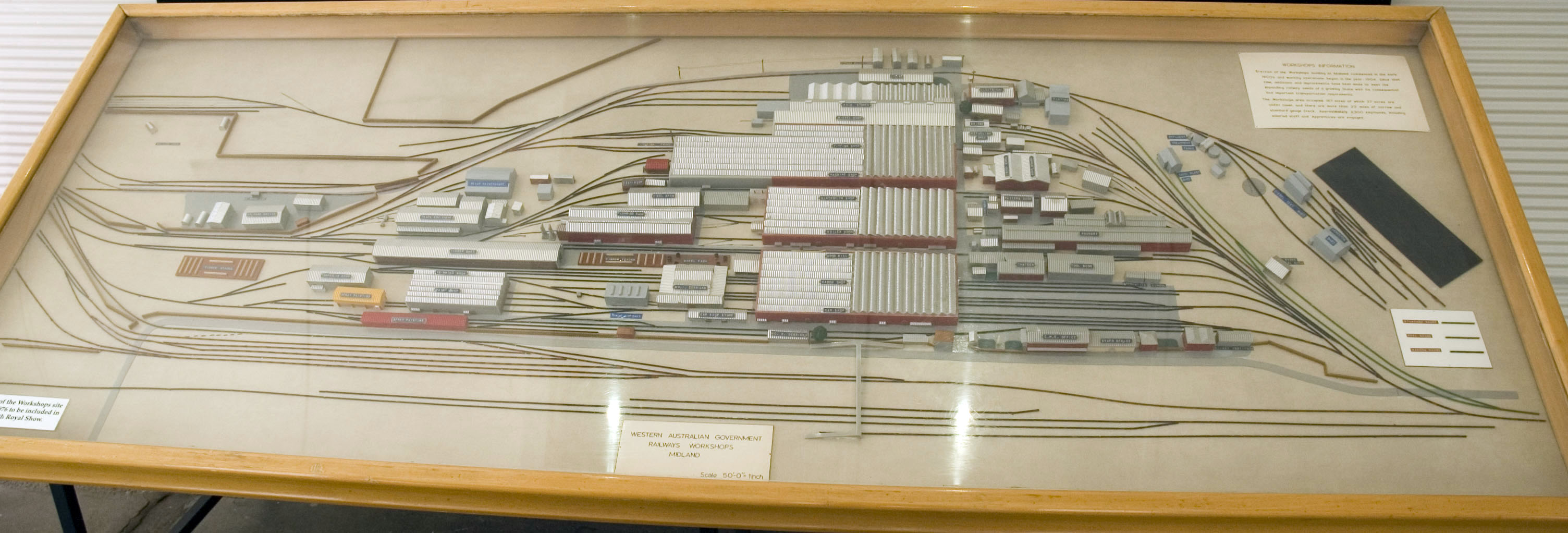 View of a scale model of Midland Railway Workshops, Midland, Western Australia. (Workshops were closed in 1994.)